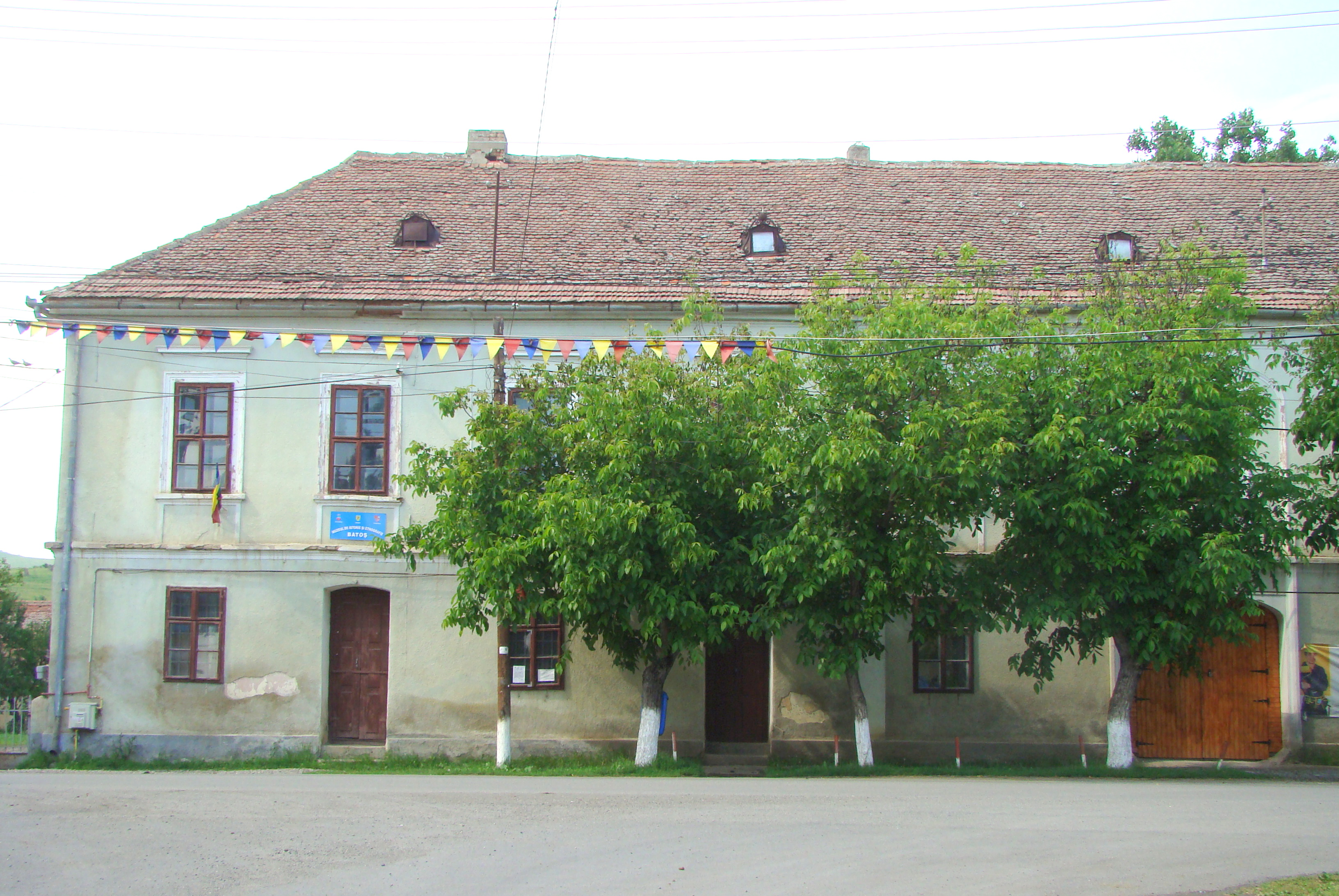 Batoș, Mureș county, Romania